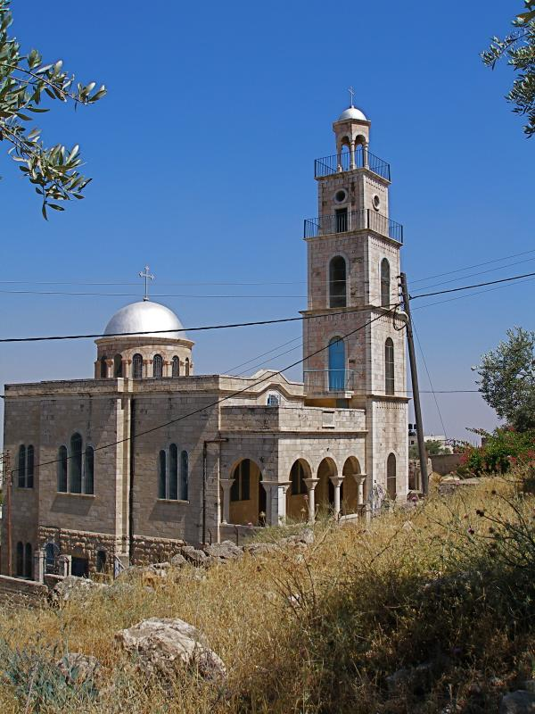 East Jerusalem- biblical village of Bethany (arab name : al-Eizariya), Greek Orthodox Church near the Tomb of Lazarus